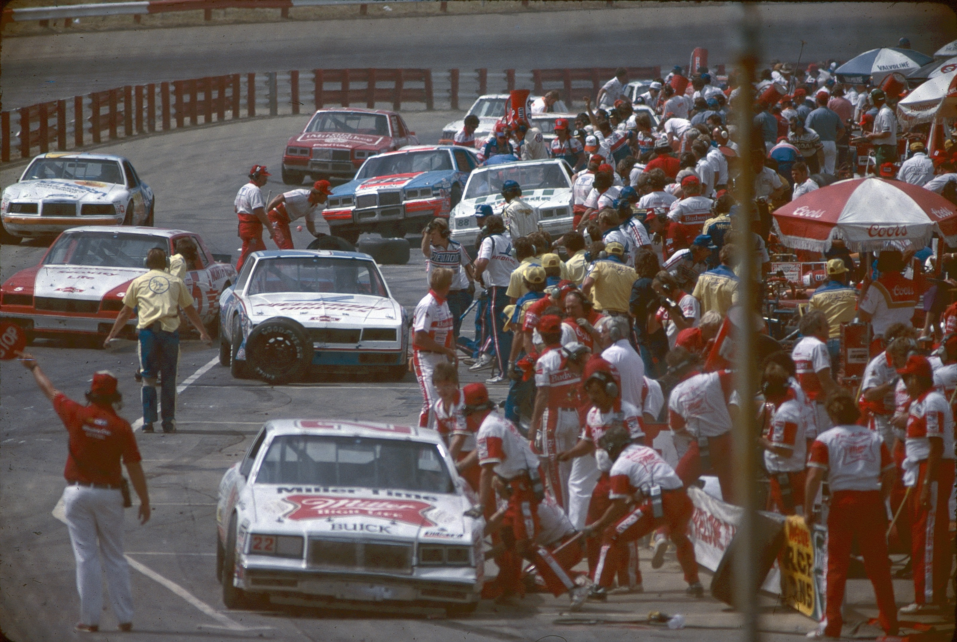 Bobby Allison pit crew works on his racecar in the pits at old half mile Richmond International Raceway in 1985 before it was reconfigured into a 3/4 mile track. Photo By Ted Van Pelt